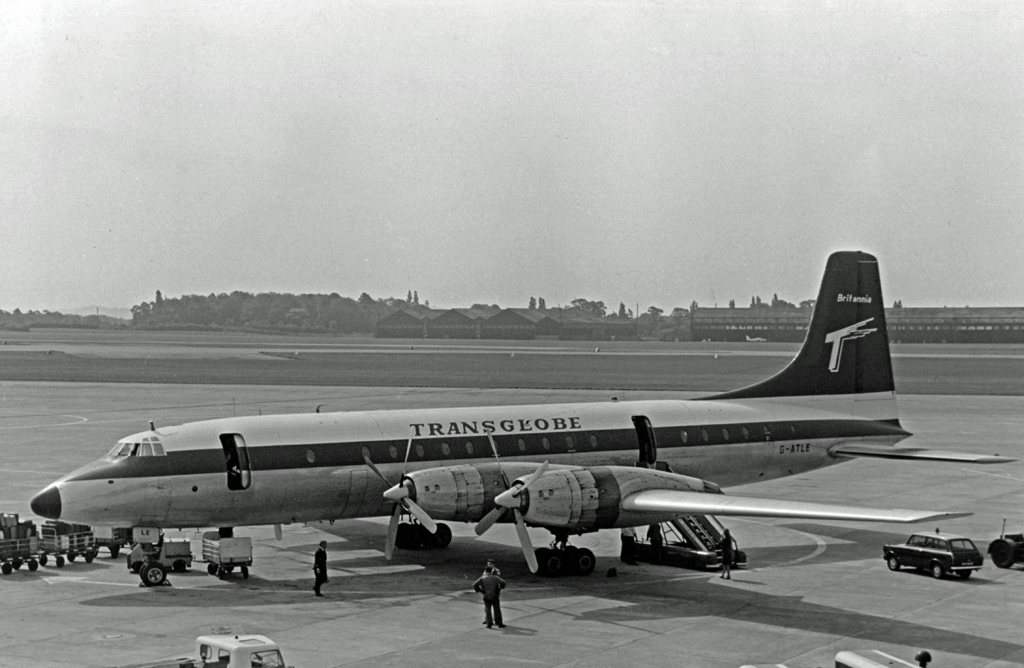 Bristol Britannia 314 G-ATLE at Manchester Airport